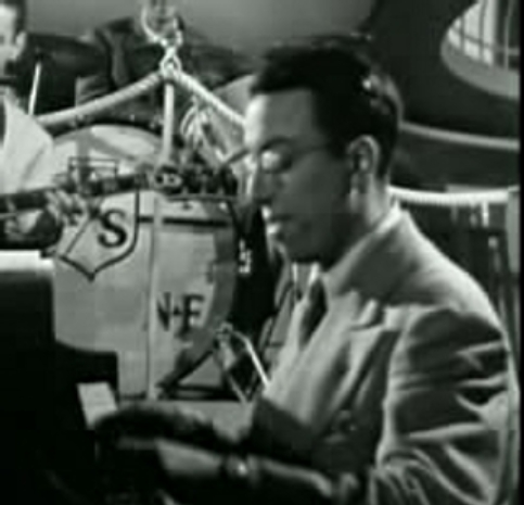 Cropped movie screenshot of jazz pianist Johnny Guarnieri in Artie Shaw's "Concerto for Clarinet" from Second Chorus